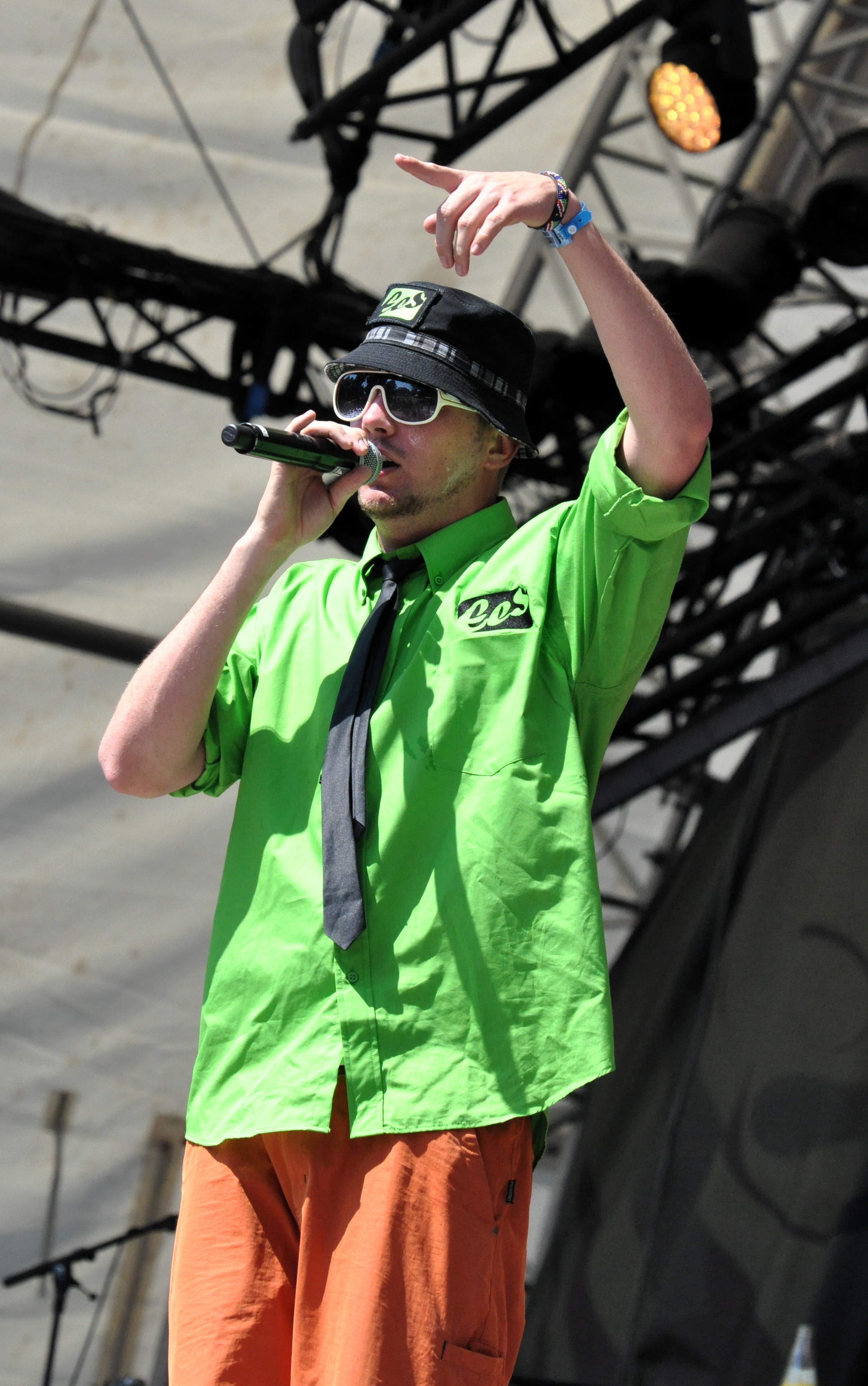 Ees at Summerjam festival 2013